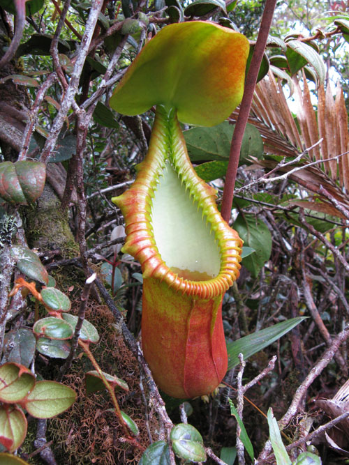 N.macrophylla